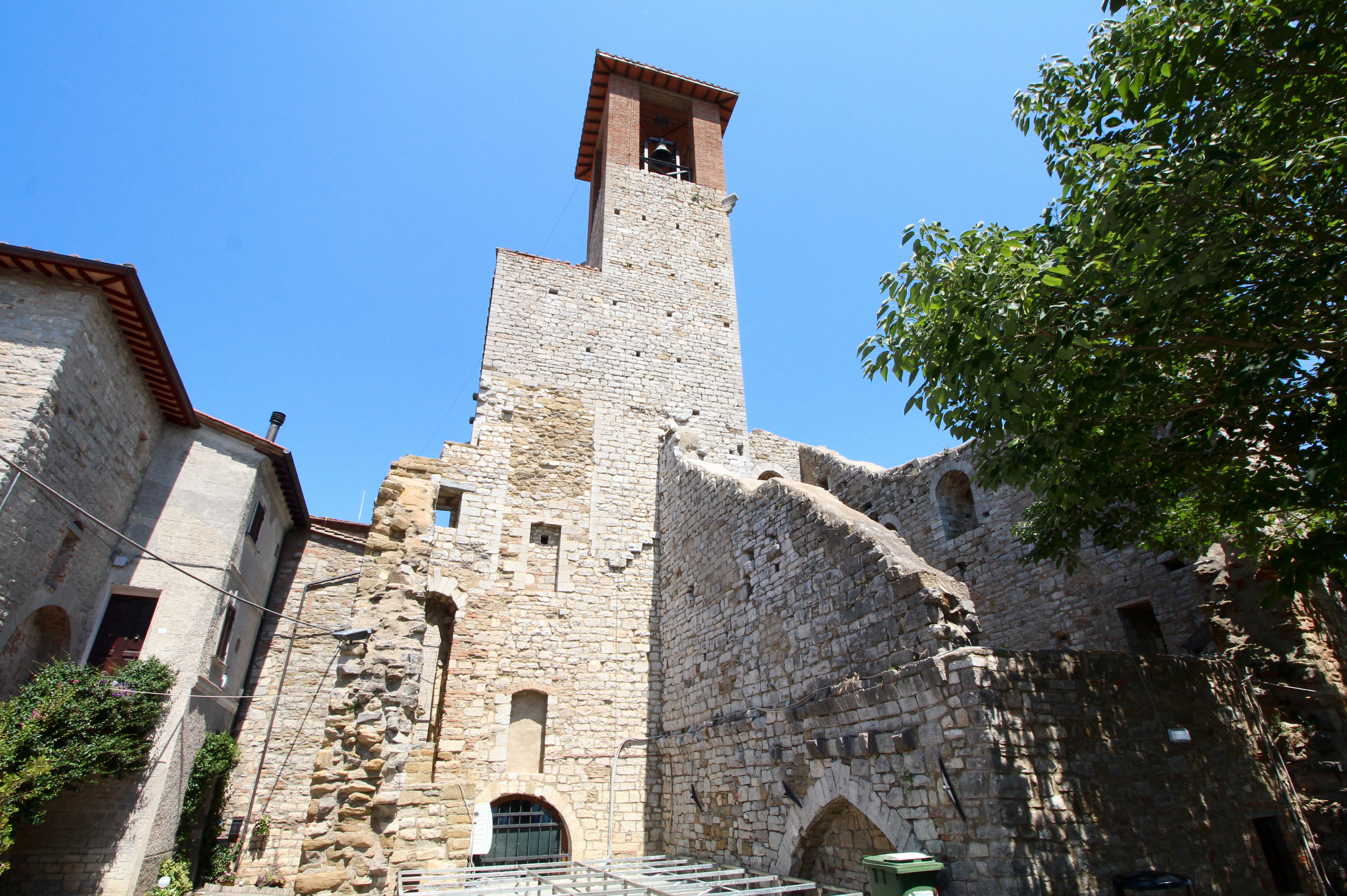 Castle ruin Castello di Agello, Agello, hamlet of Magione, Umbria, Italy